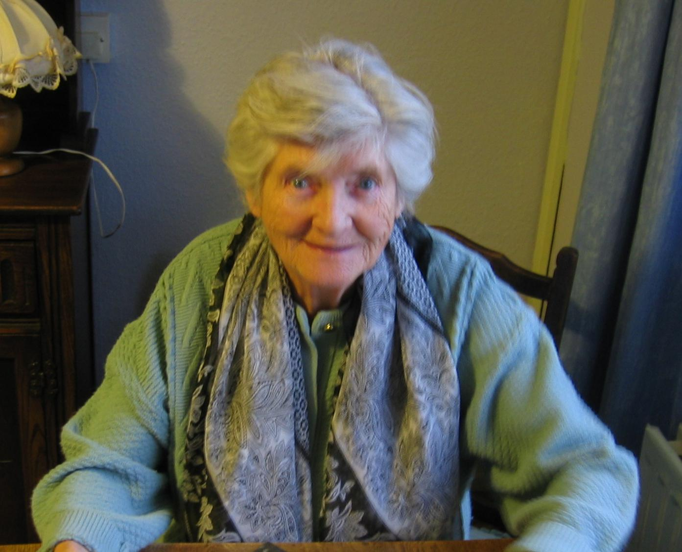 Award Winning Artist Frances Lennon photographed at her home in February 2006